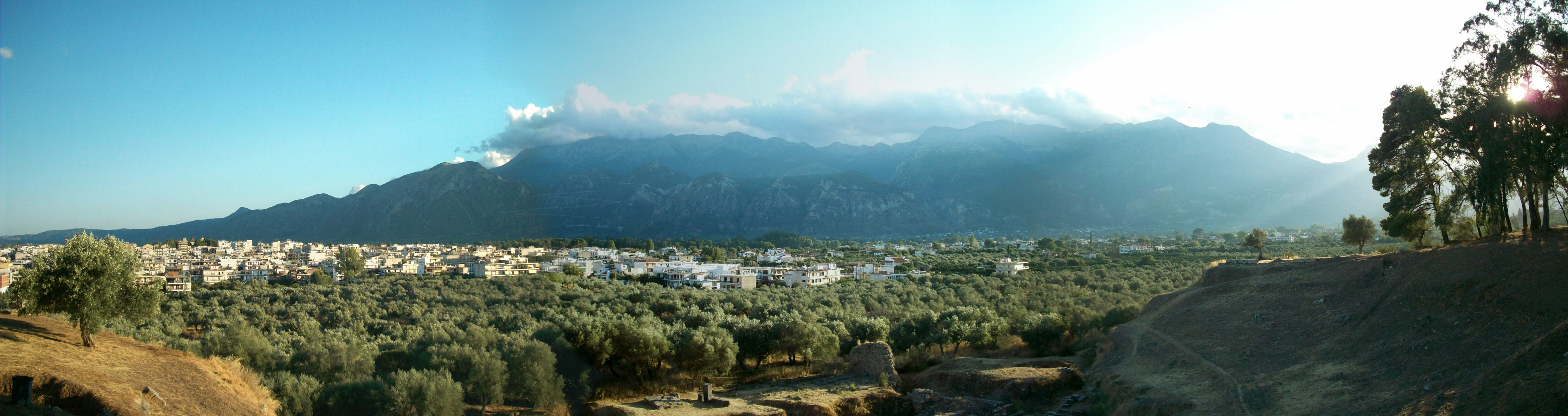 Ancient and modern Sparta